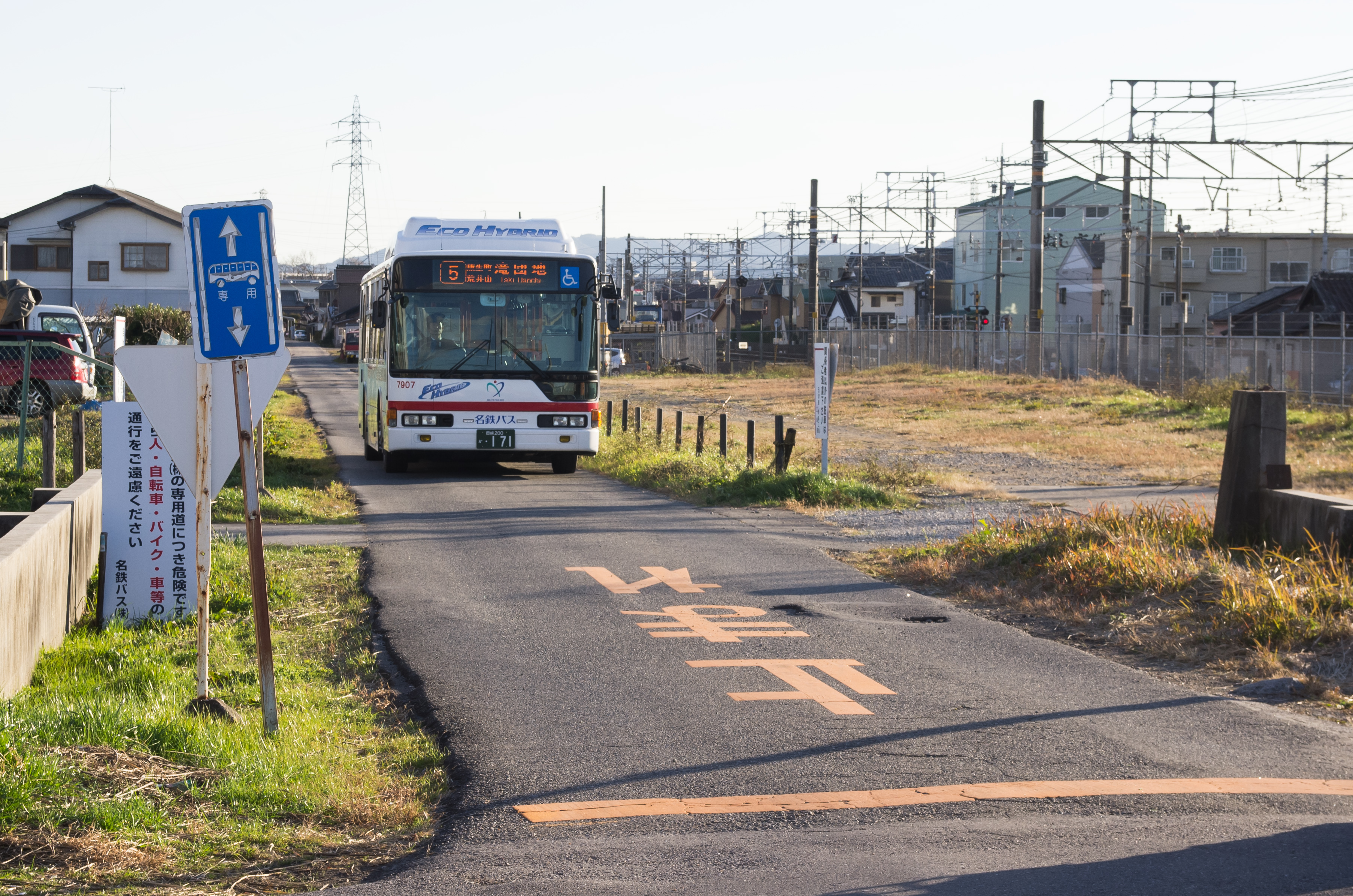 Busway in Okazaki, Aichi, Japan (Meitetsu Bus Hashira-machi Bus stop)